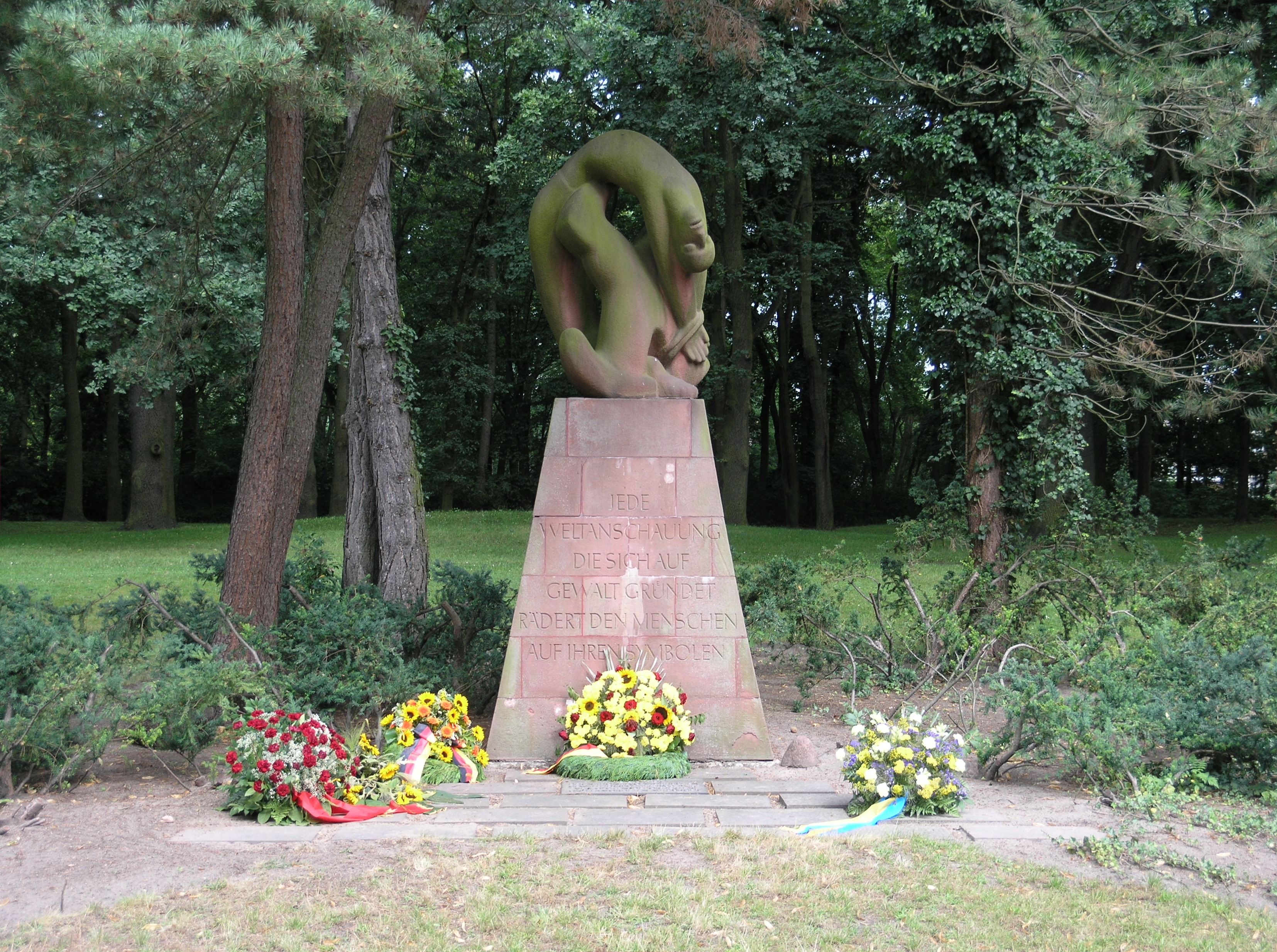 Memorial stone, NS-Opfer, Am Rathauspark ggü1, Berlin-Wittenau, Germany